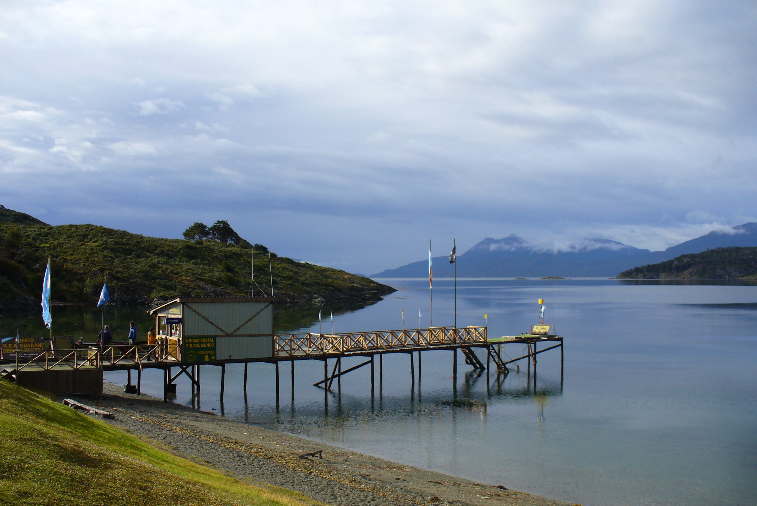 Bahía Ensenada is a bay located on the Beagle Channel in Tierra del Fuego National Park, Province: Tierra del Fuego, Argentina. The small cottage is the southernmost post office of the Correo Argentino.